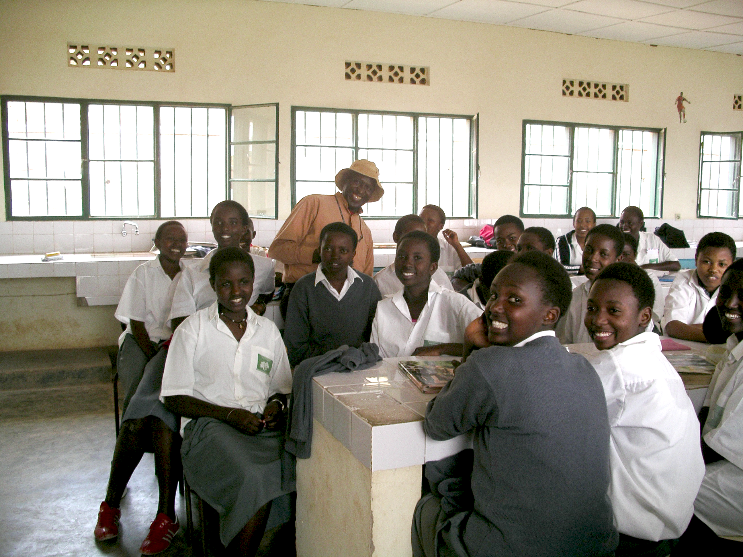 Pupils at a Rwandan secondary school